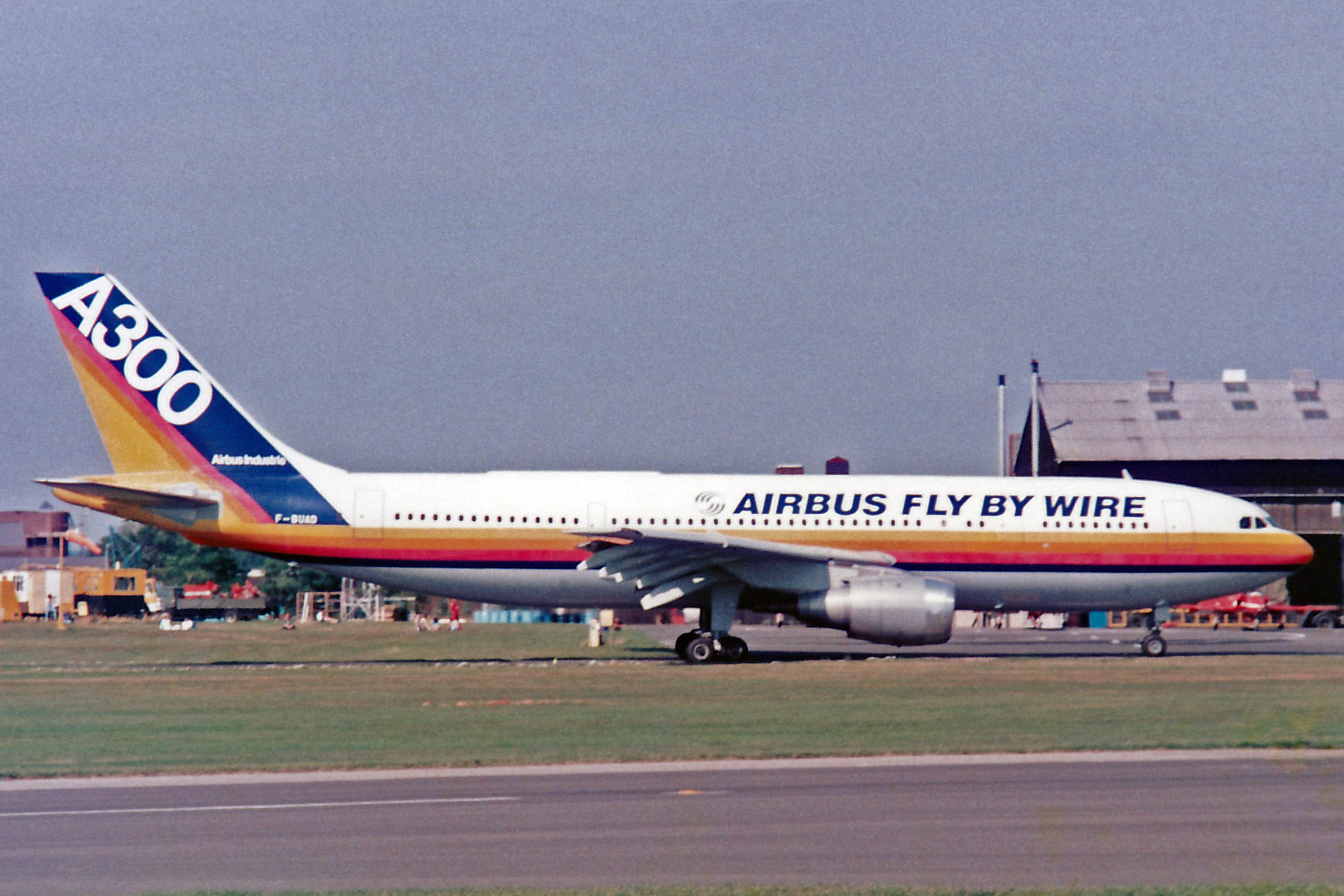 Farnborough Air Show, 1986. Originally F-WUAD and later F-ODCX, F-BUAD was the 3rd Prototype A300 built in Jun-73. It was leased to General Electric in Jan-89 as an engine testbed. Sold to SOGERMA in May-96 it was leased to Novespace and operated for 11 years giving 'weightless' training to astronauts and others. It was retired and stored at Bordeaux (BOD) in mid 2007. It was last noted still stored at BOD in Dec-12.